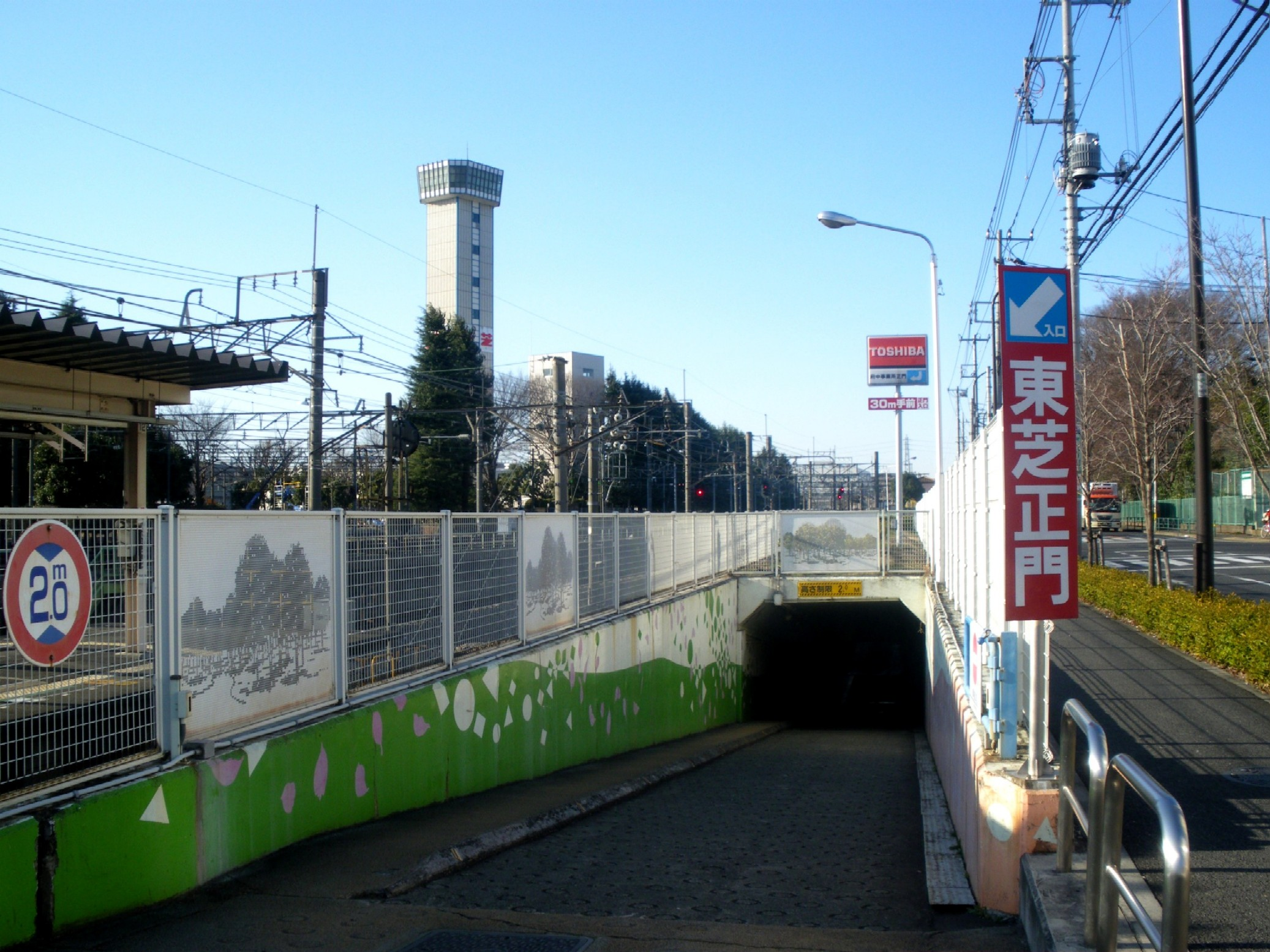 a photo the underground passage to Toshiba Fuchu Factory main gate,Toshibacho,Fuchu city,Tokyo,Japan.